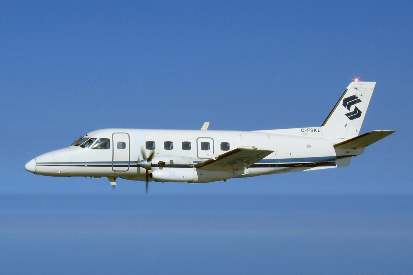 An Embraer E110 in flight